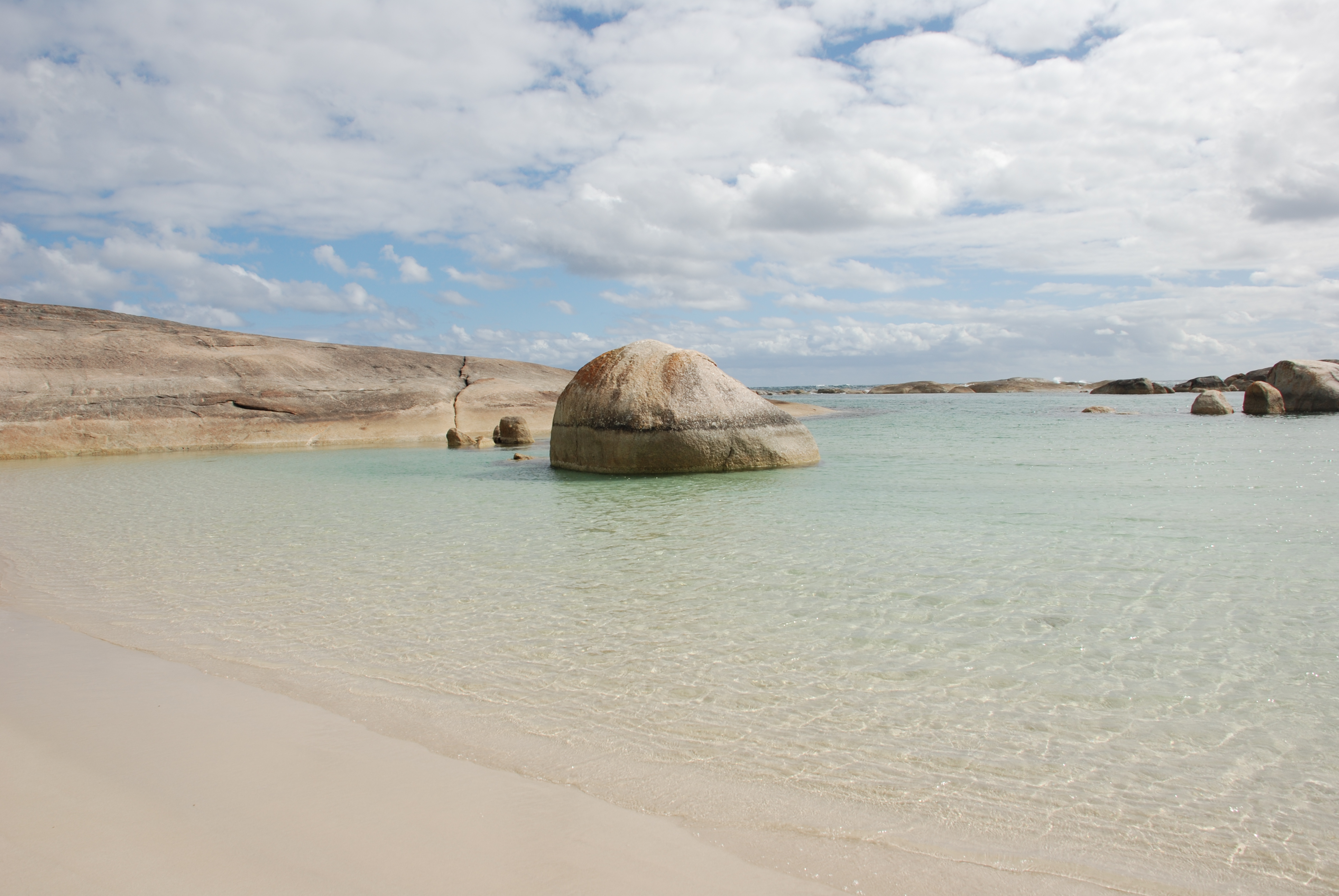 View on Green's Pool, William Bay National Park, Denmark, WA, Australia